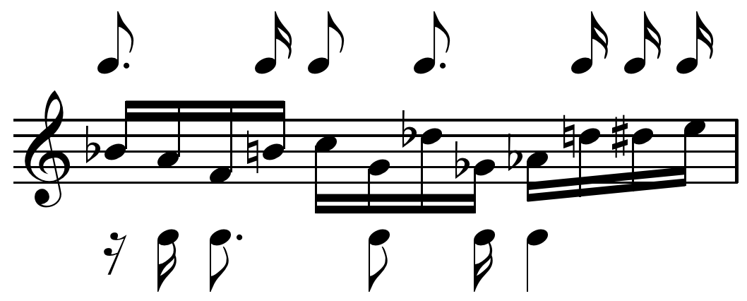 Tone row from the third movement of Alban Berg's Lyric Suite, according to George Perle. Shows pitches